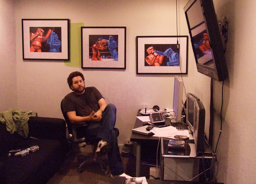 Burnie Burns, co-founder of Rooster Teeth, at the company's former office on Congress Avenue in Austin.